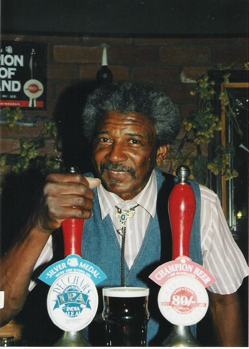 Lester pulls a pint in the Sample Room at the Caledonian Brewery at the 1997 Edinburgh Blues Festival